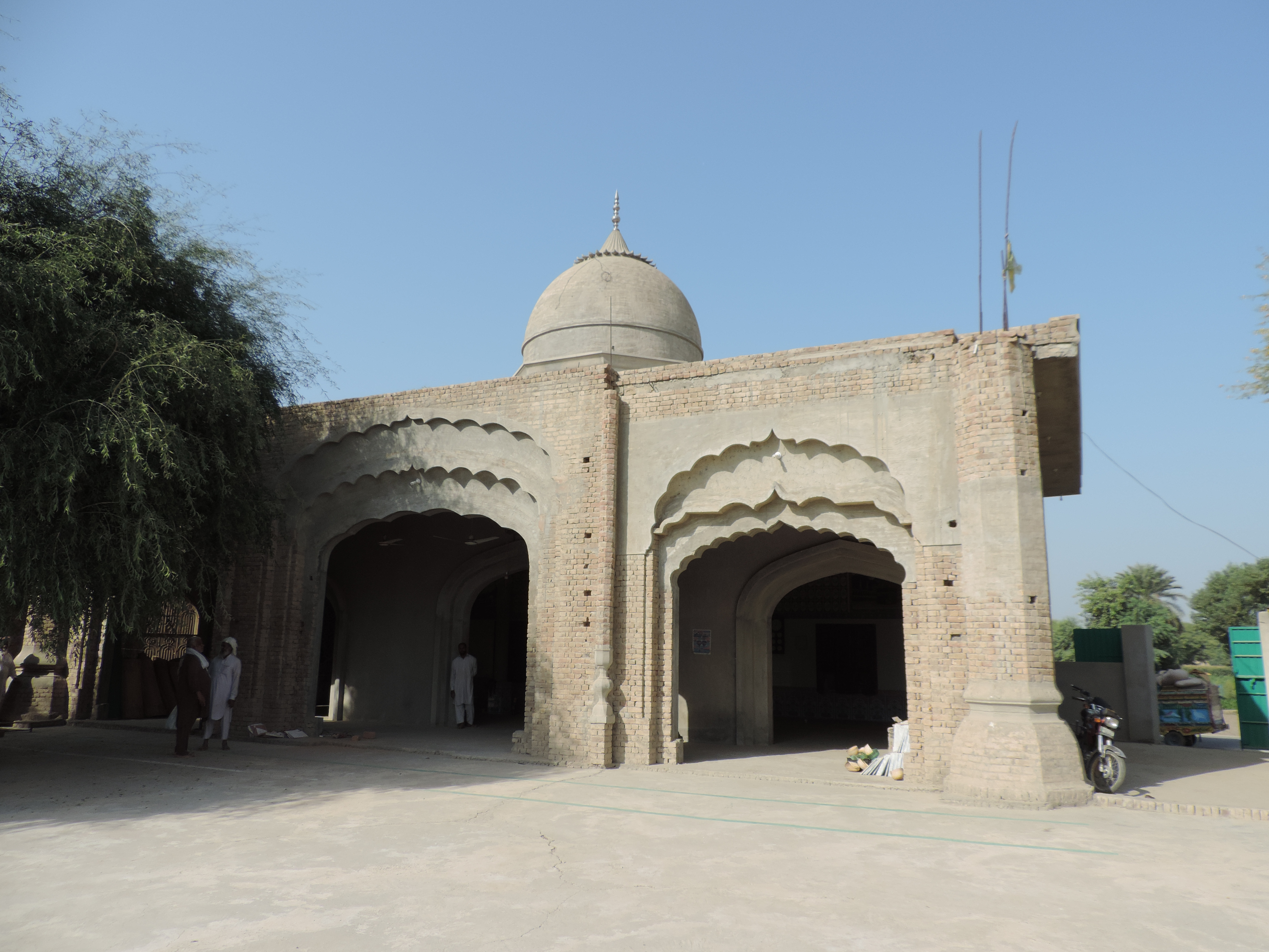 Old Mosque at Basti Hasil Wali This is a photo of a monument in Pakistan identified as the PB-P-179